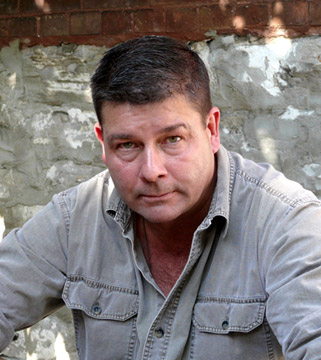 Depicted person: Scott Taylor – Canadian journalist